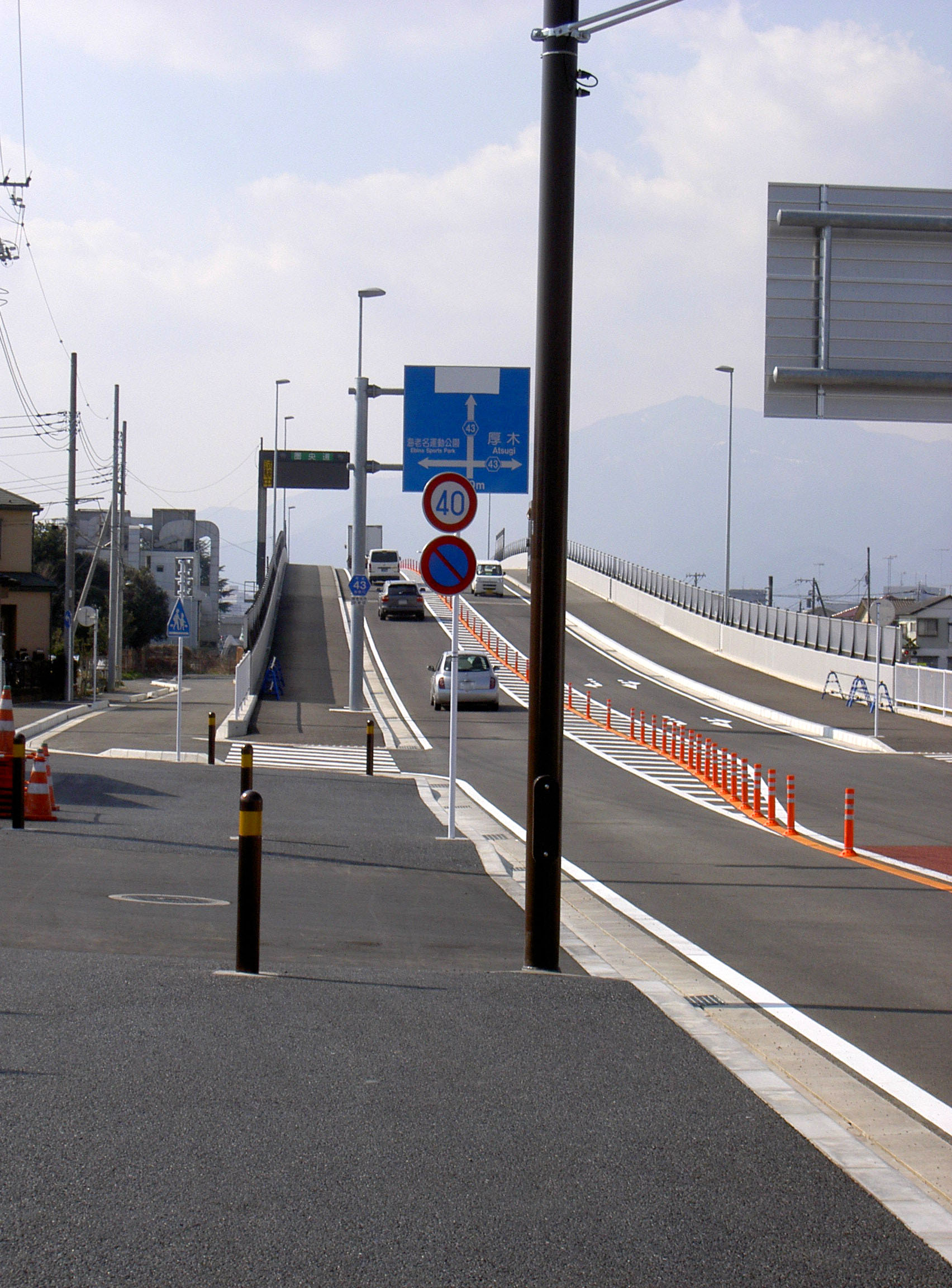 Kanagawa prefectural road route 43